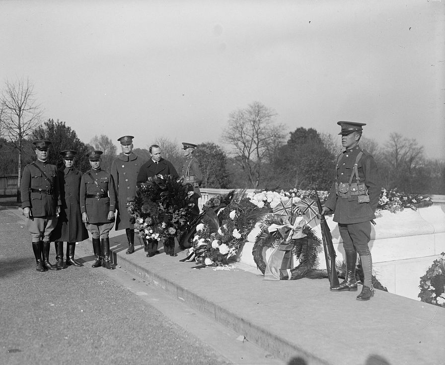 Army Chaplains at Tomb of Unknown Soldier.